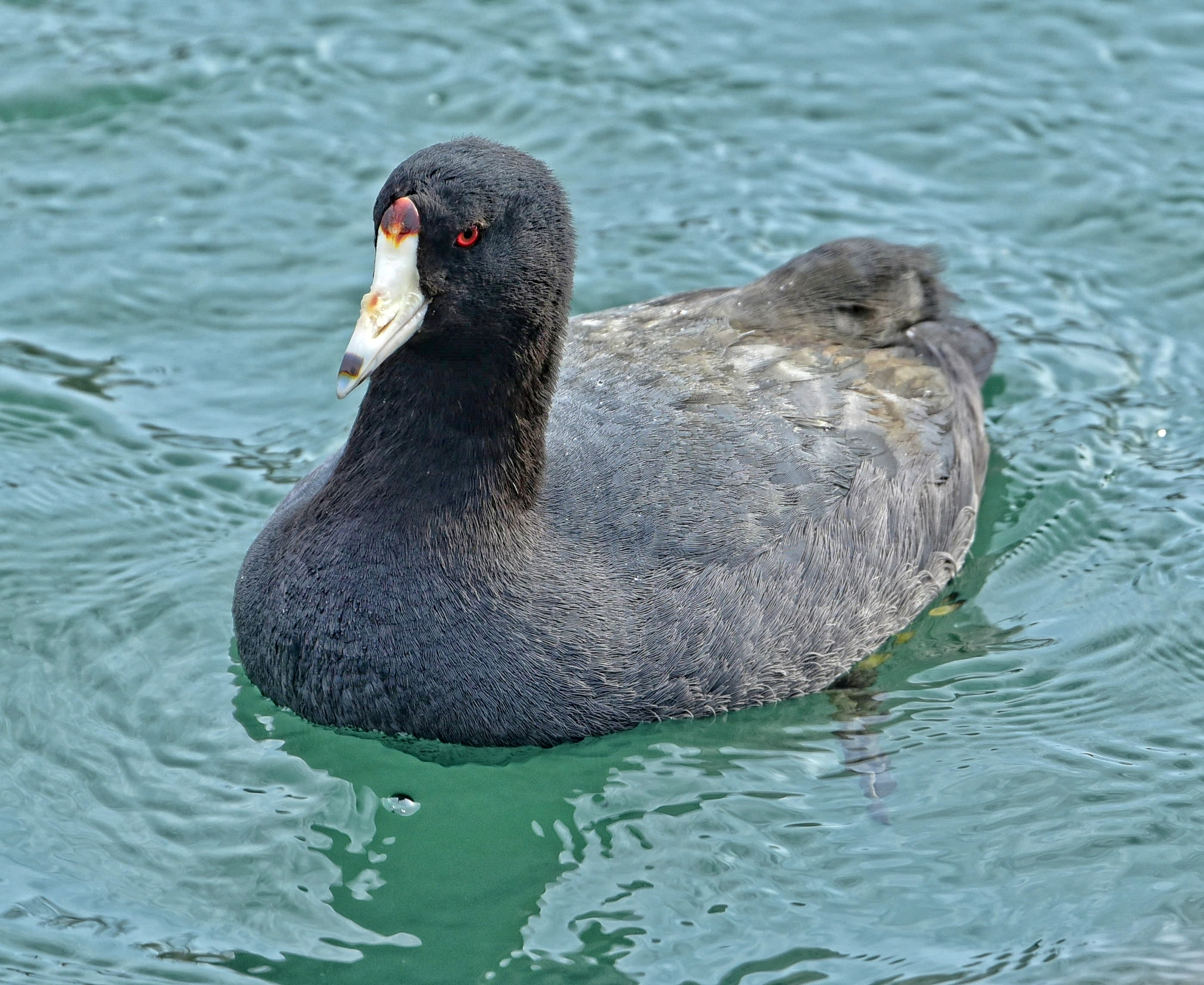 American coot (Fulica americana) on Lake Ontario in the Humber Bay Park East in Toronto